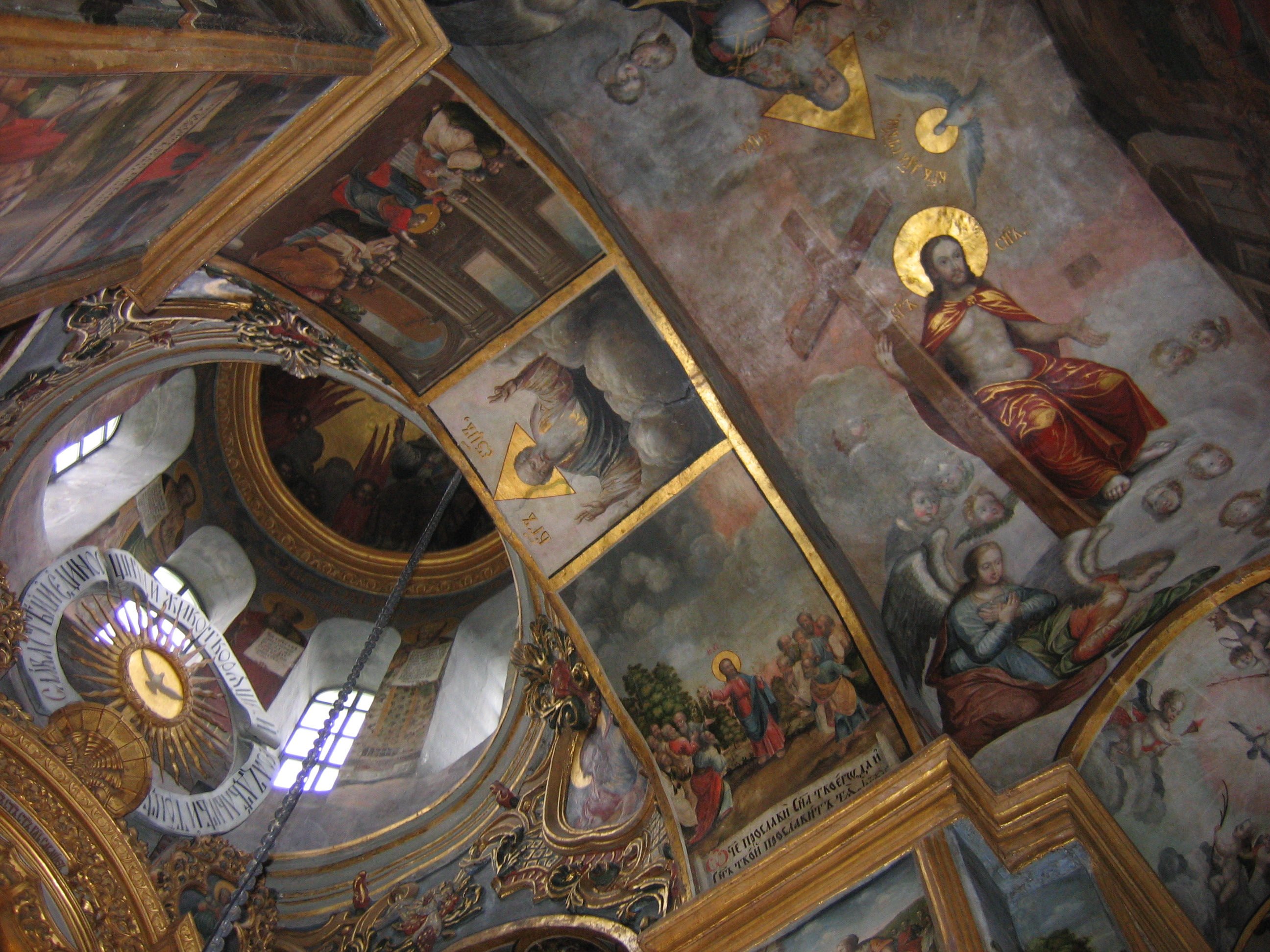 Kiev Pechersk Lavra (Kiev, Ukraine)